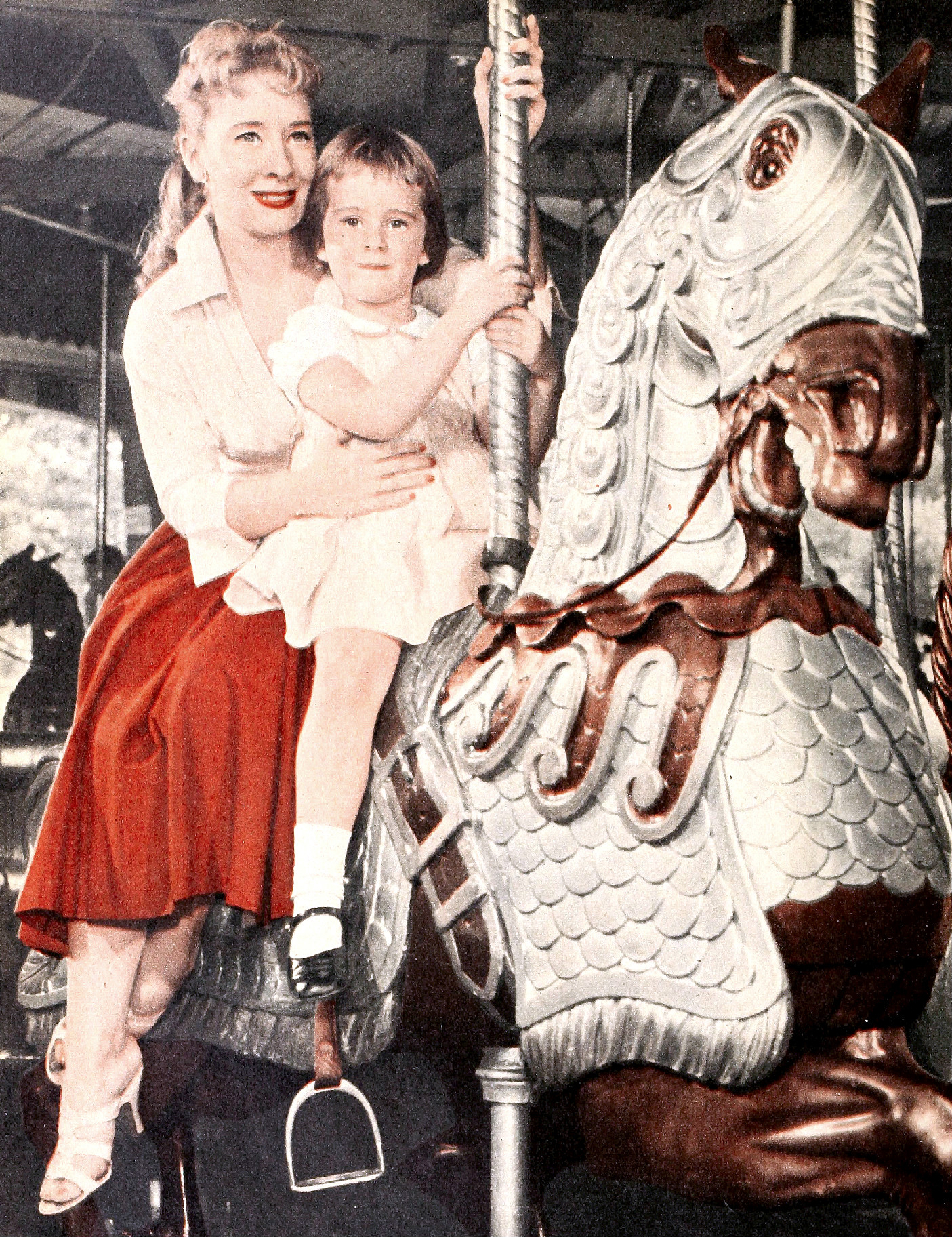 Photo of actress Teri Keane and her daughter in 1954. A renewal search was done at for the title Radio-TV Mirror. There were no listing. There's no evidence of continuing copyright on the magazine.